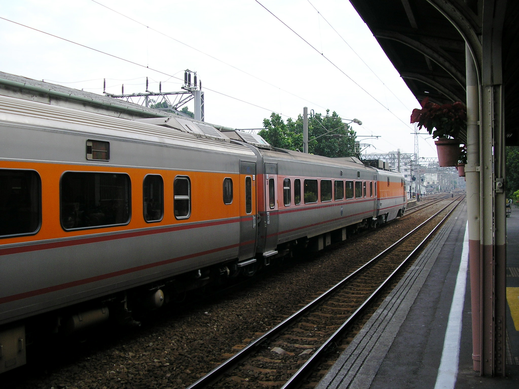 Tzuchiang express train at the platform of Tainan Station. Taken in Tainan, Taiwan bu L. Chang.